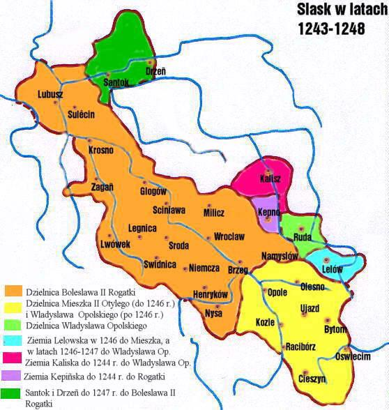 Karte Schlesiens 1243-1248